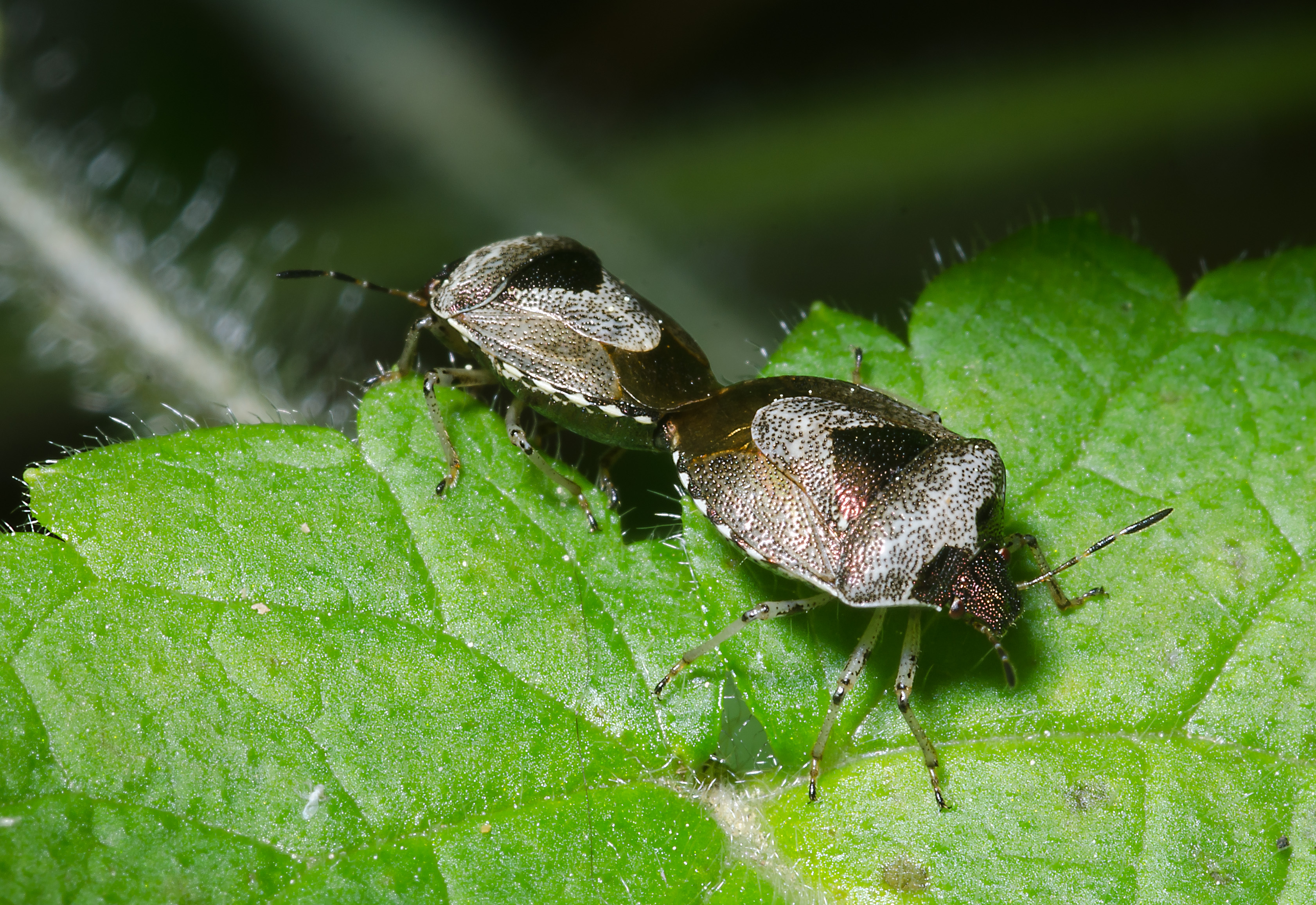 Picture taken near Stuttgart, Germany. Thanks to the members of Wikipedia:RBIO/B for the identification.